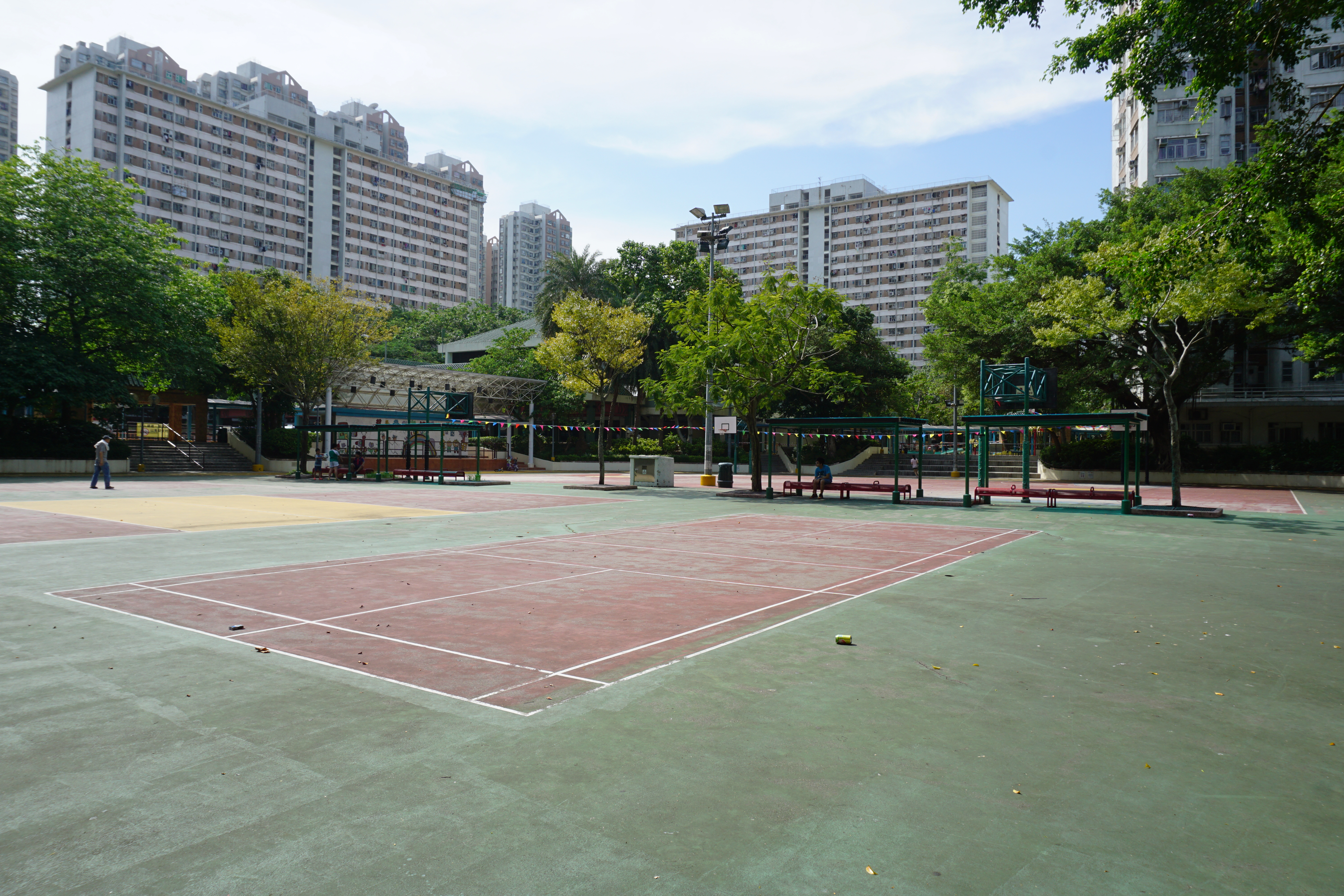 Cheung Wah Estate in Fanling, Hong Kong.